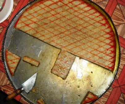 This picture of Sheki Halva taken in the Halva shop located near the silk factory. This picture was taken by Joshua Noonan on 28 November 2006 in Sheki, Azerbaijan.